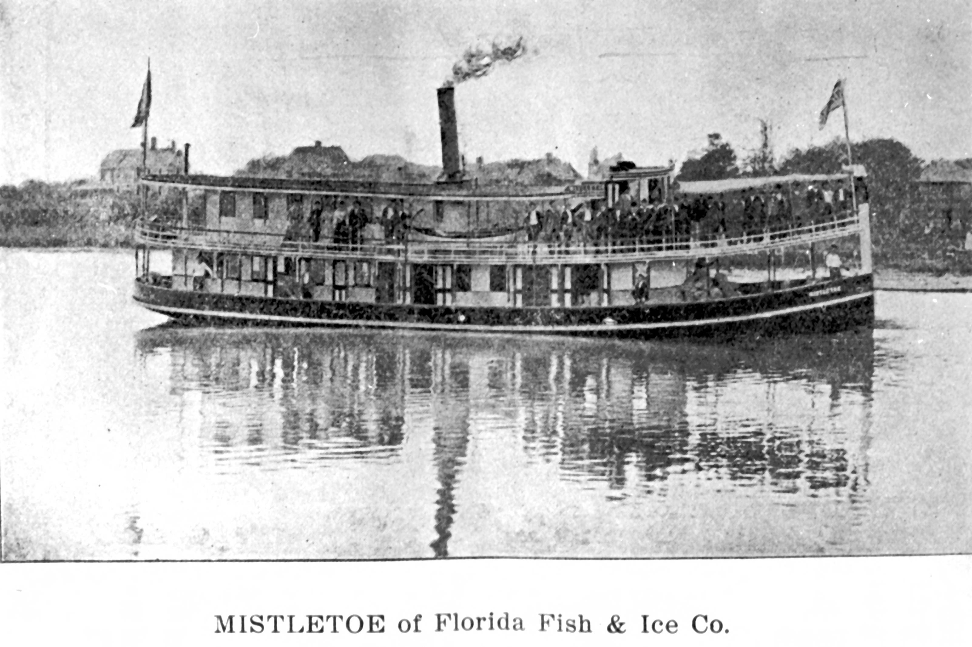 A 1900 postcard picture of the 100-foot long steamboat Mistletoe of the Florida Fish and Ice Company, owned by John Savarese of Tampa and Longboat Key. Photo courtesy of Manatee County Public Library System.